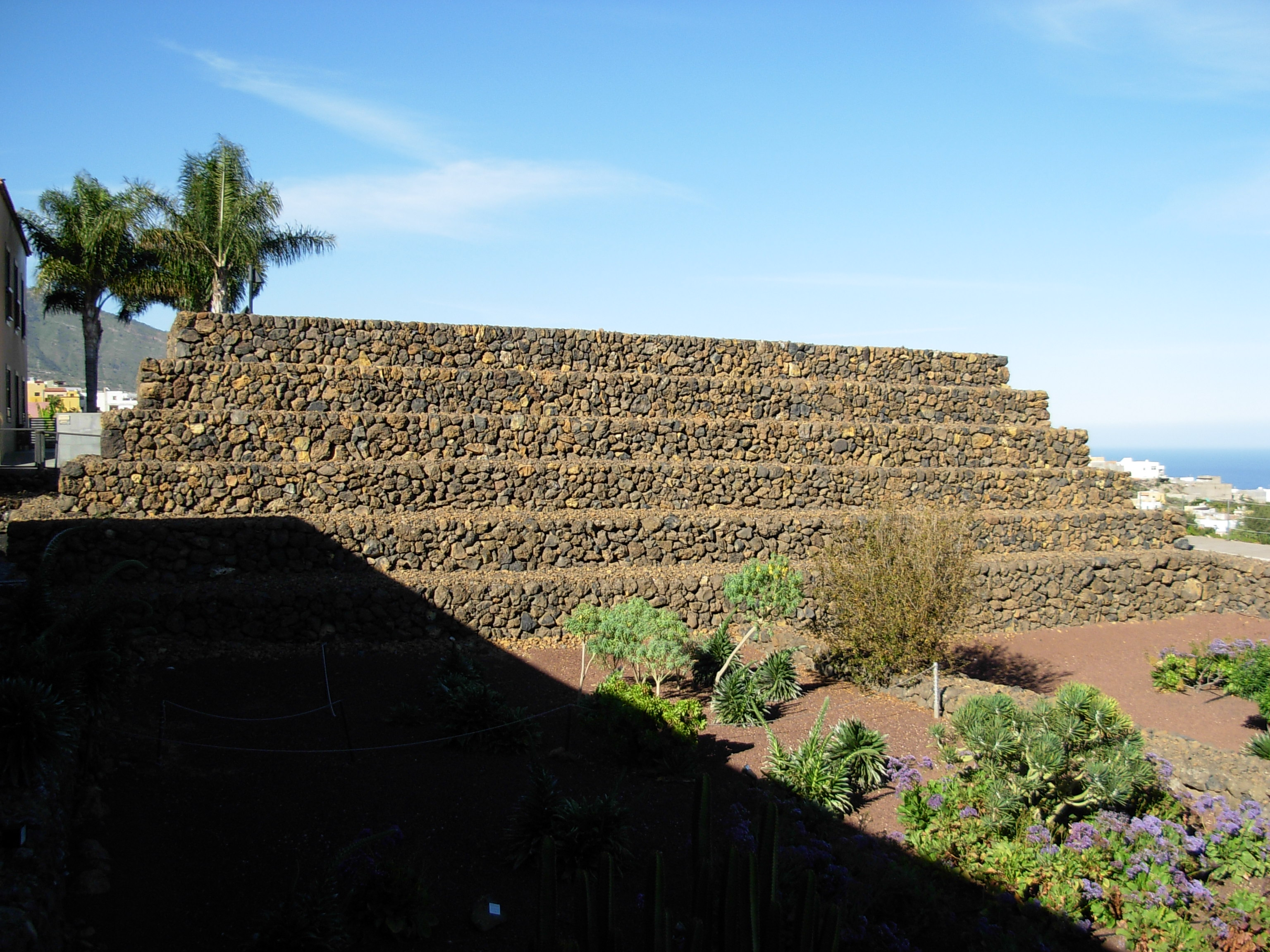 Pyramids of Güímar